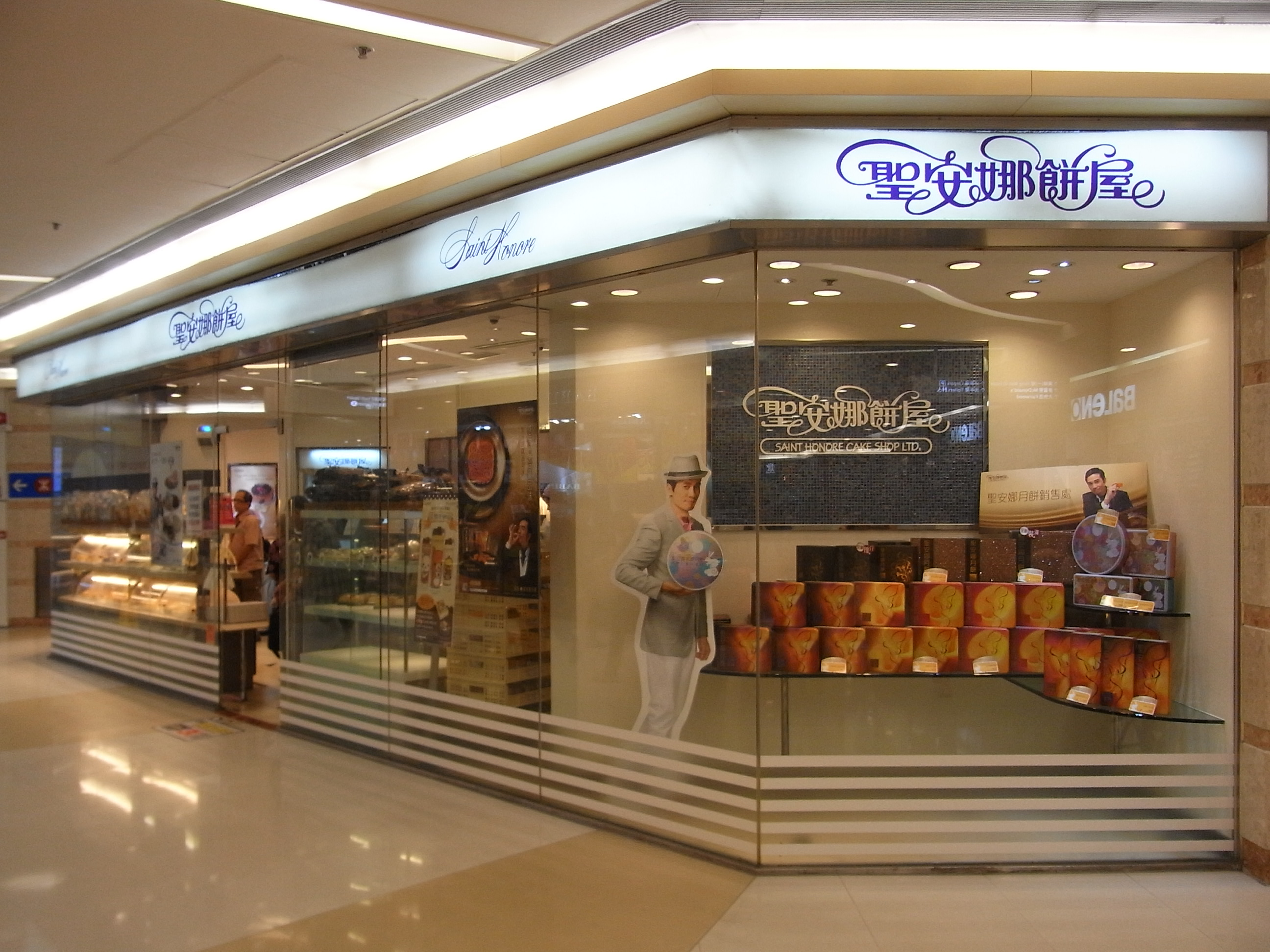 興華廣場 興華邨, Hing Wah Plaza, Hing Wah Estate, 11 Wan Tsui Road, Hong Kong